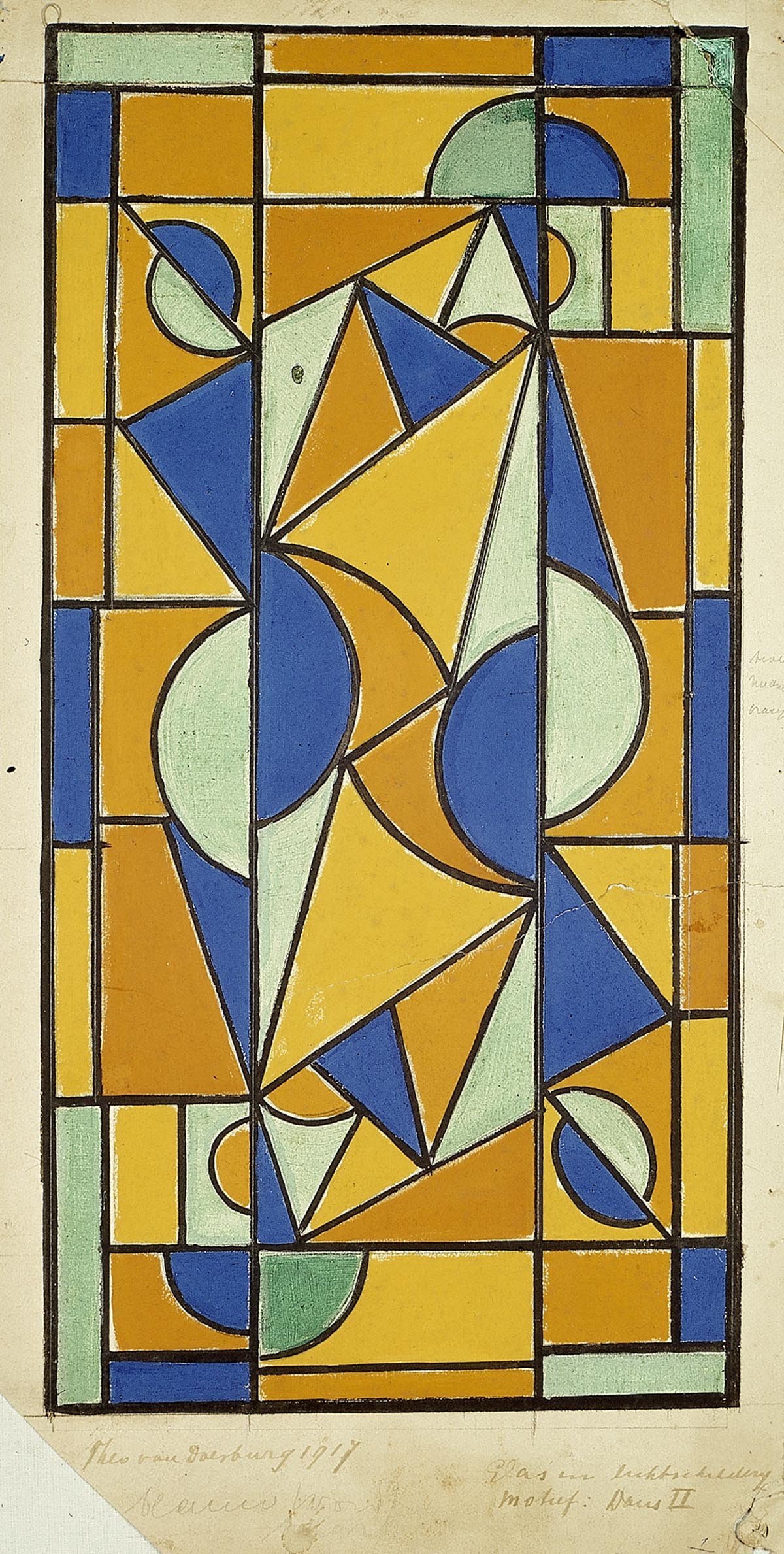 Design for File:Theo van Doesburg Dance II.jpg